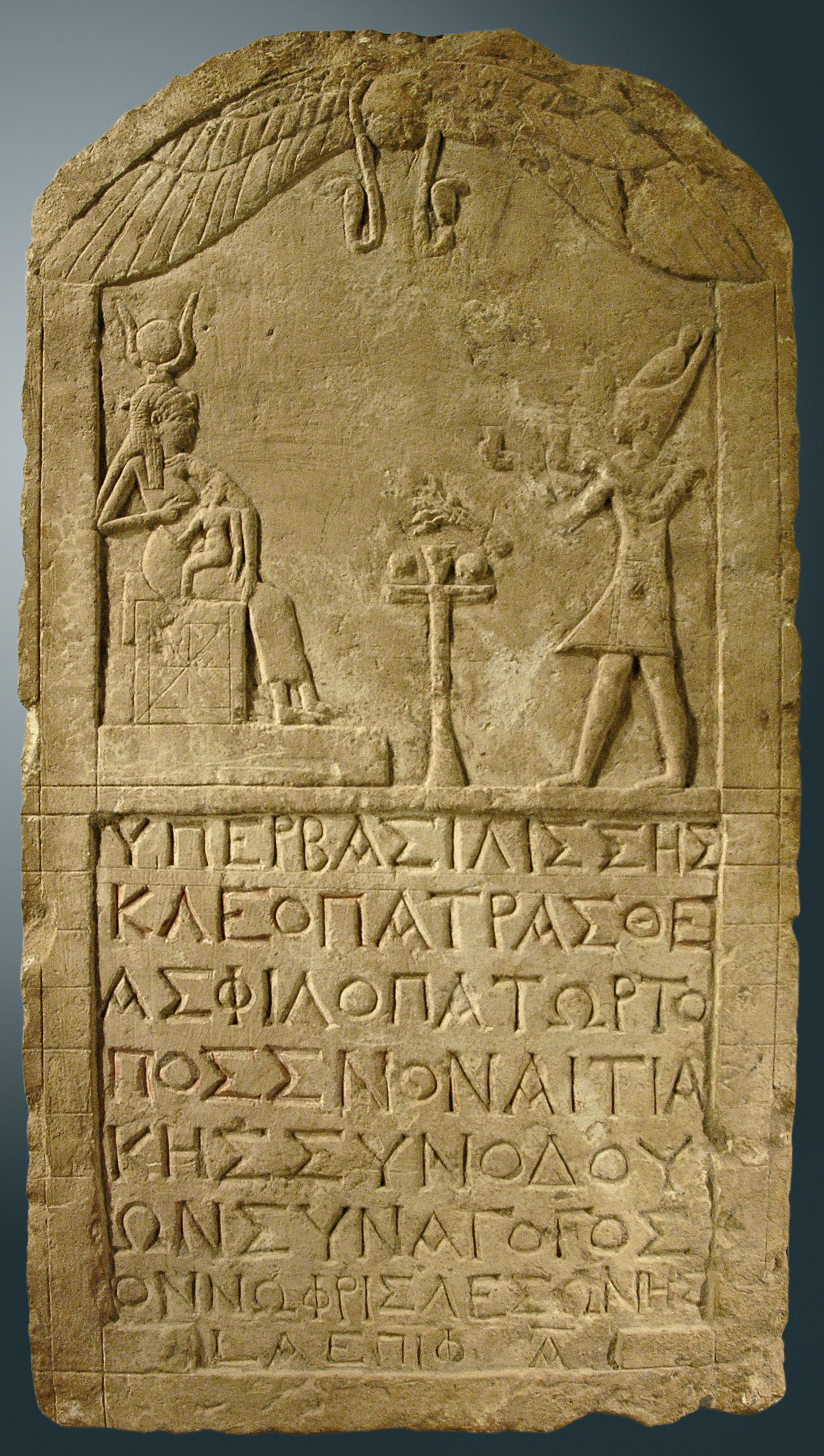 Cleopatra VII of Egypt dressed like a pharaoh presenting offerings to Isis, 51 BC. Limestone stele dedicated by a Greek man, Onnophris.